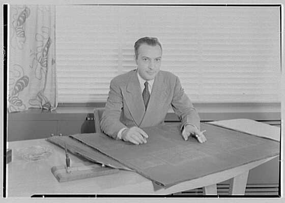 Title: Mr. Lester C. Tichy, 369 Lexington Avenue, New York City. Abstract/medium: Gottscho-Schleisner Collection (Library of Congress) Physical description: 1 negative